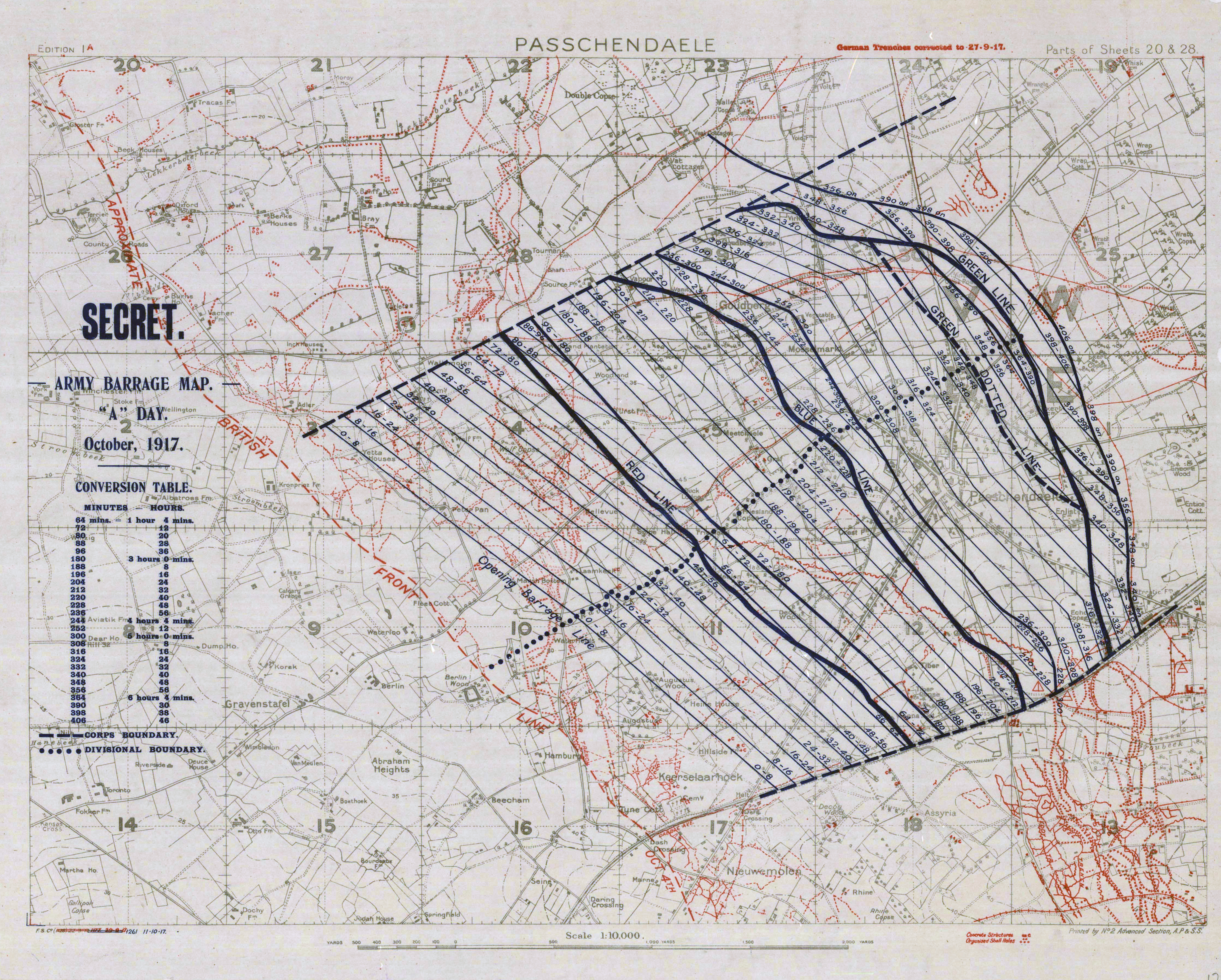 1:10000 scale army artillery barrage map from the First Battle of Passchendaele during the Third Battle of Ypres.